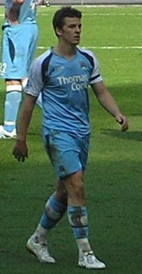 Joey Barton playing for Manchester City. Cropped from original source.